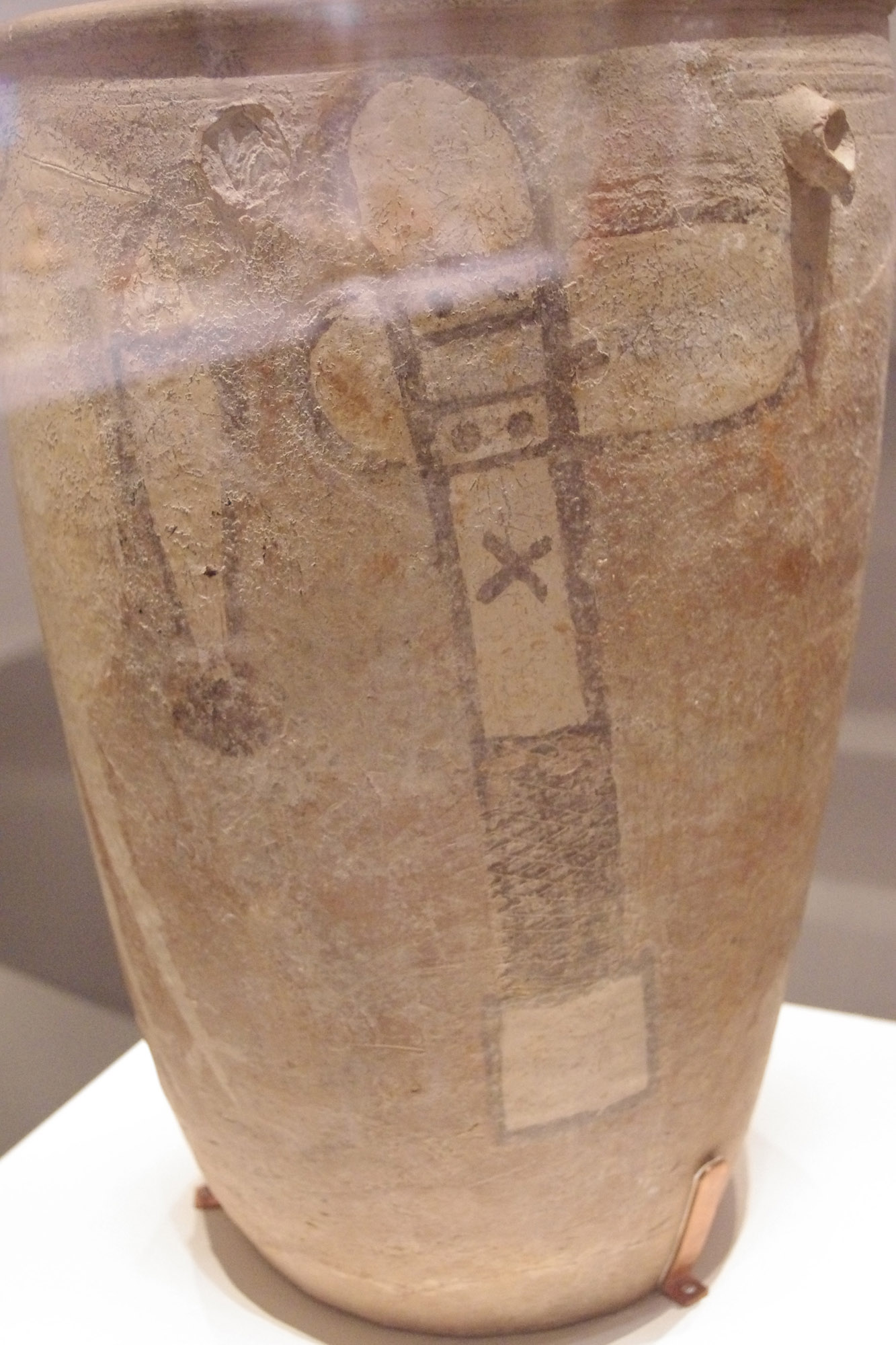 Painted pottery of neolithic Yangshao culture, with depiction of a stork catching a fish and a stone axe on one side.